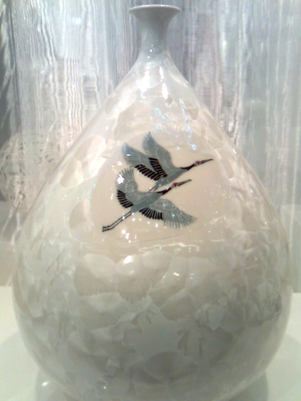 Baekja or Korean White Ceramic (백자;白磁) with cranes image in an exhibition titled “The Light of Millennium of Korean Ceramics” in Jakarta, Indonesia, November 2008